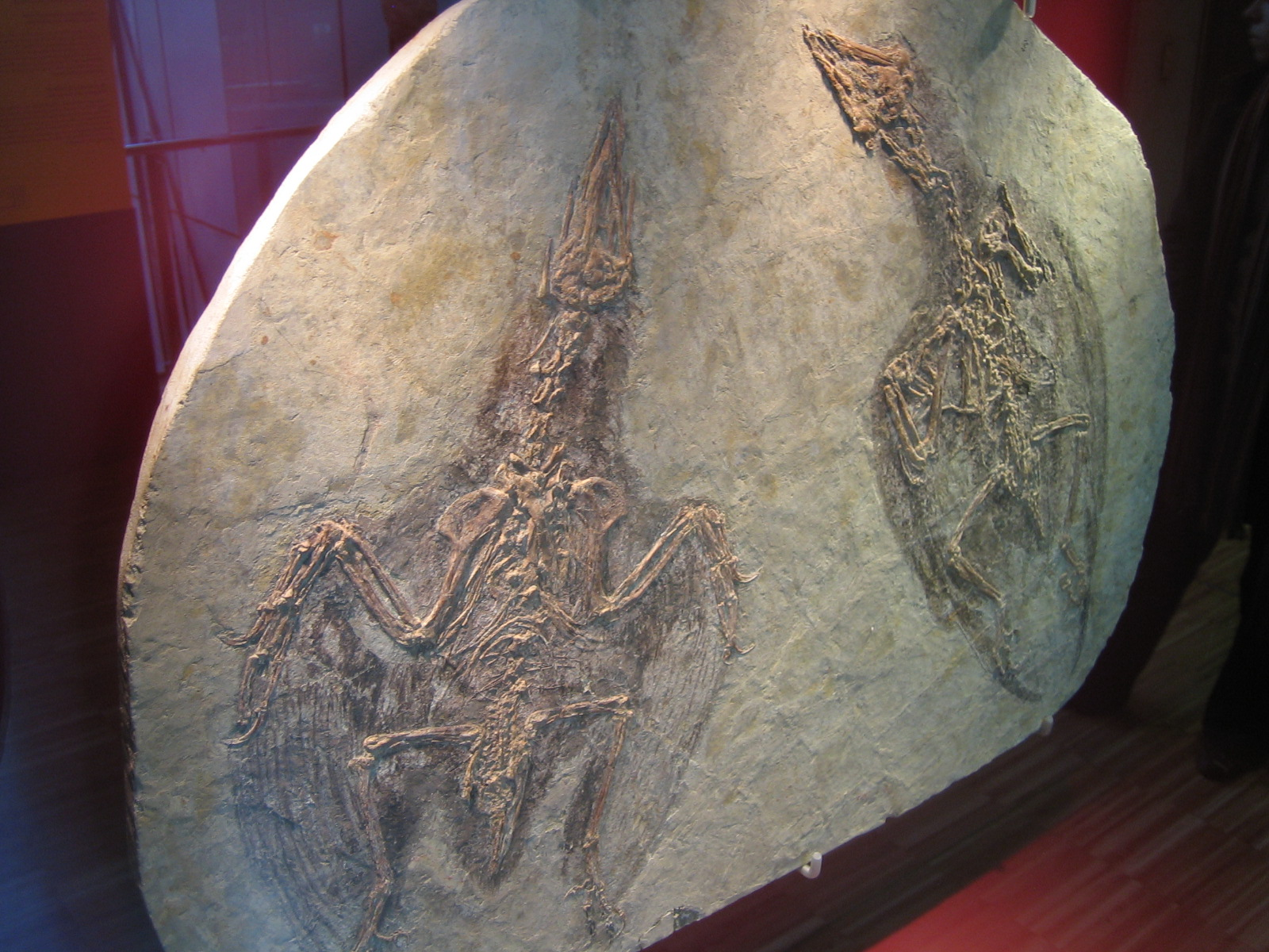 Confuciusornis sanctus fossil specimens exhibited in Cosmocaixa, Barcelona.